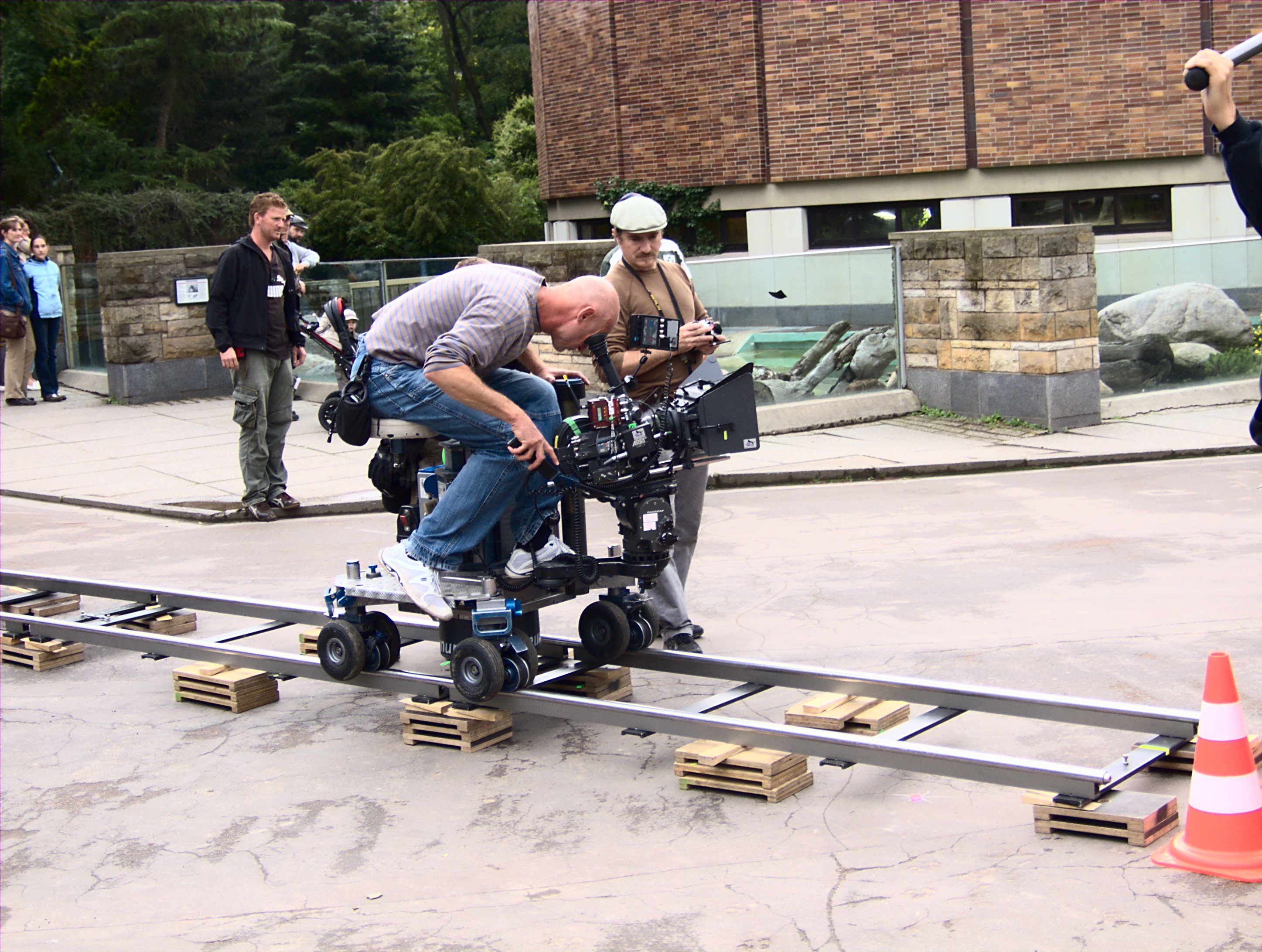 Possible ARRI Cam